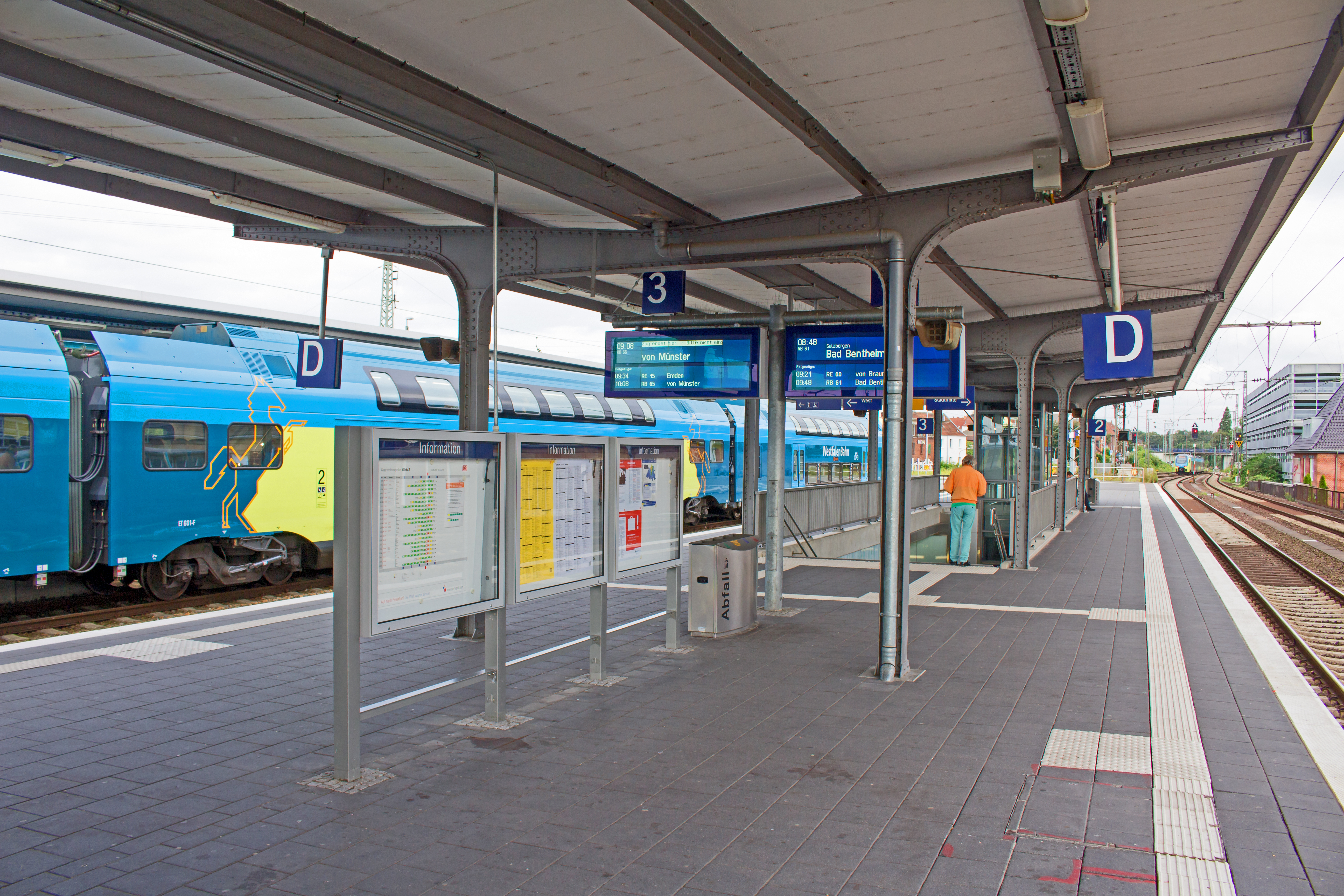 platform 2/3 at Rheine train station - Rheine, North Rhine-Westphalia, Germany